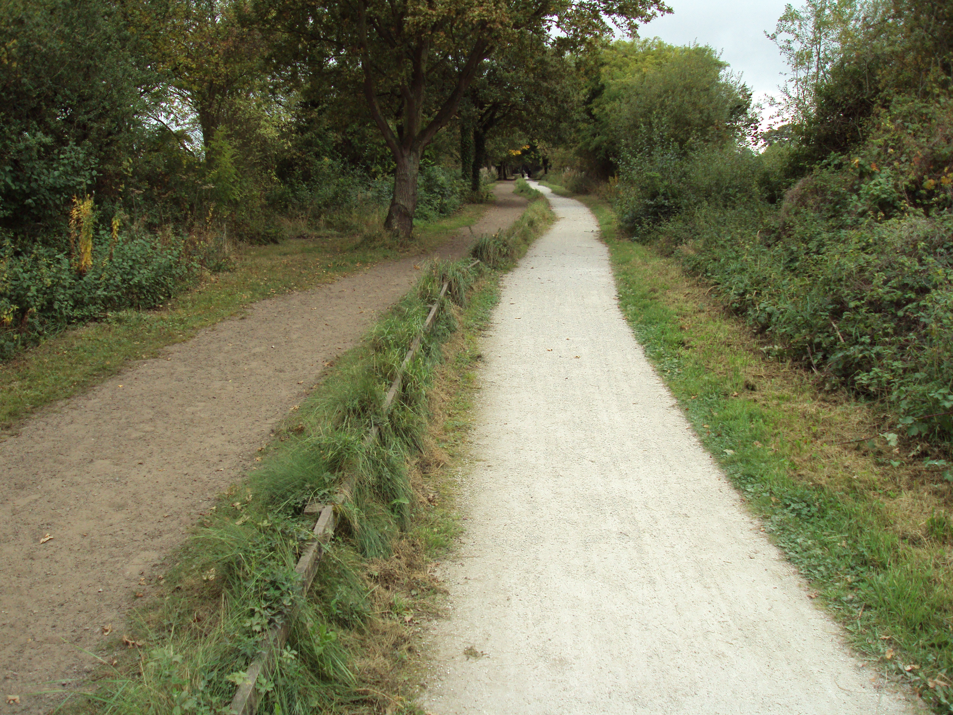 The Wirral Way at Willaston, Wirral, Cheshire, England. On the right is the footpath and cycleway carrying national routes 56,70 and 71. On the left is the bridleway.